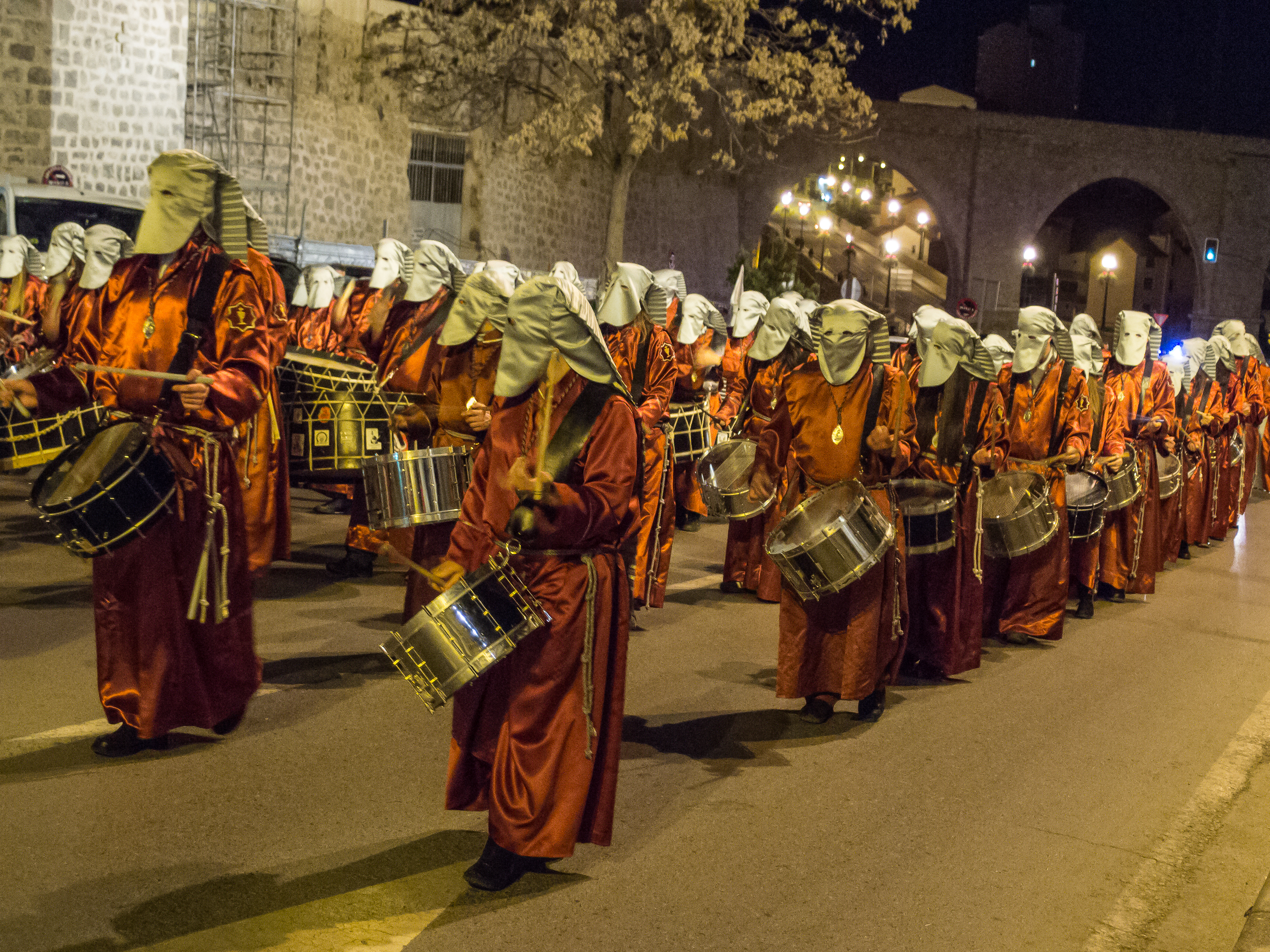 Desde San León, la cofradía de La Oración de Jesus en el huerto, llevo su paso hasta la iglesia de San Martín. This is a photography of a Folklore festival in Spain (Wikidata id Q23541308).